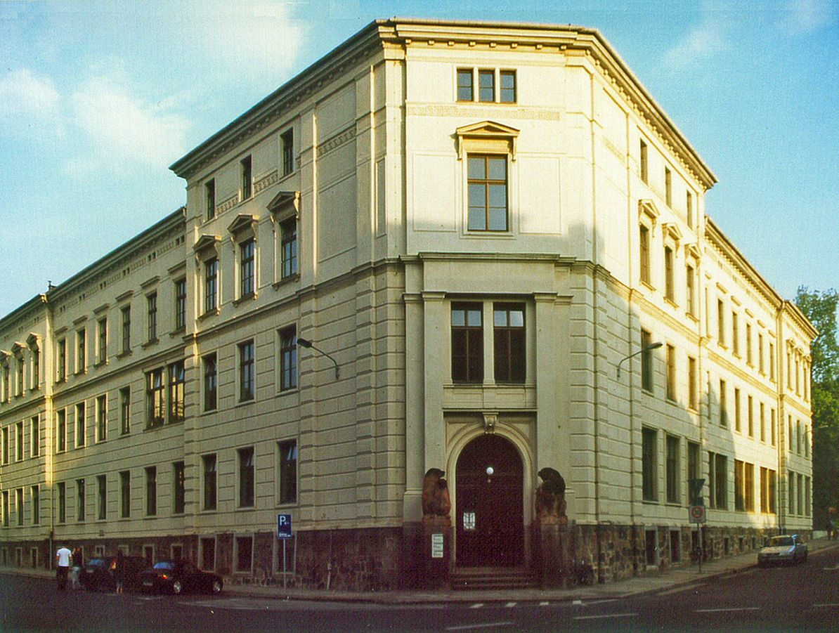 Leuckart's Institute of Zoology, Leipzig, Talstrasse 33.